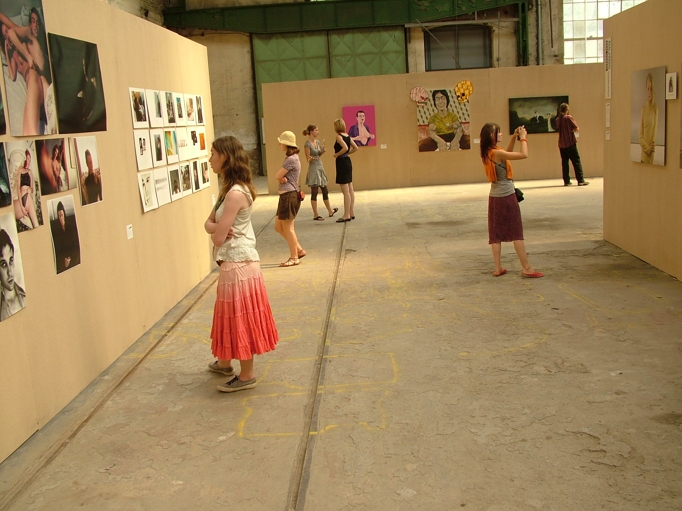 Visitors of Photo_Bienale_Praha 2009